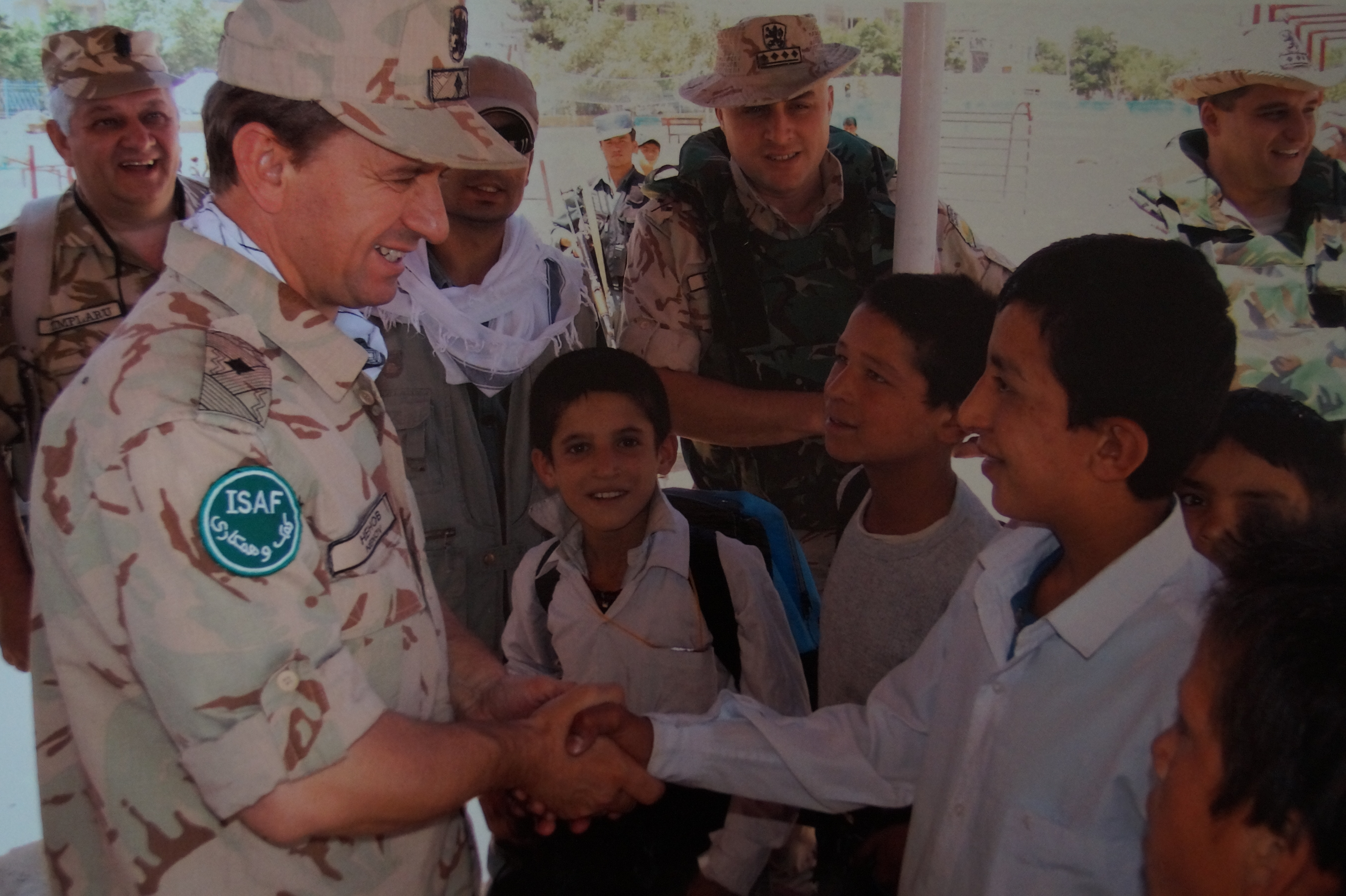 ISAF